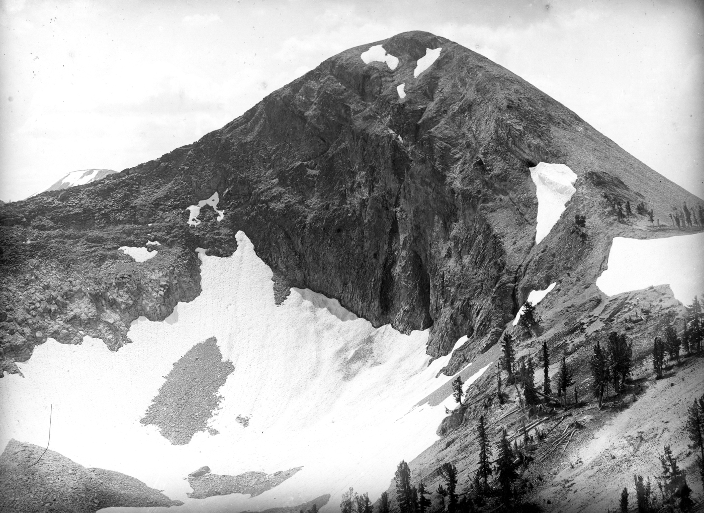 Yellowstone National Park, Wyoming. Echo Peak. Circa 1890. Plate 12, U.S. Geological Survey Monograph 32, part 2